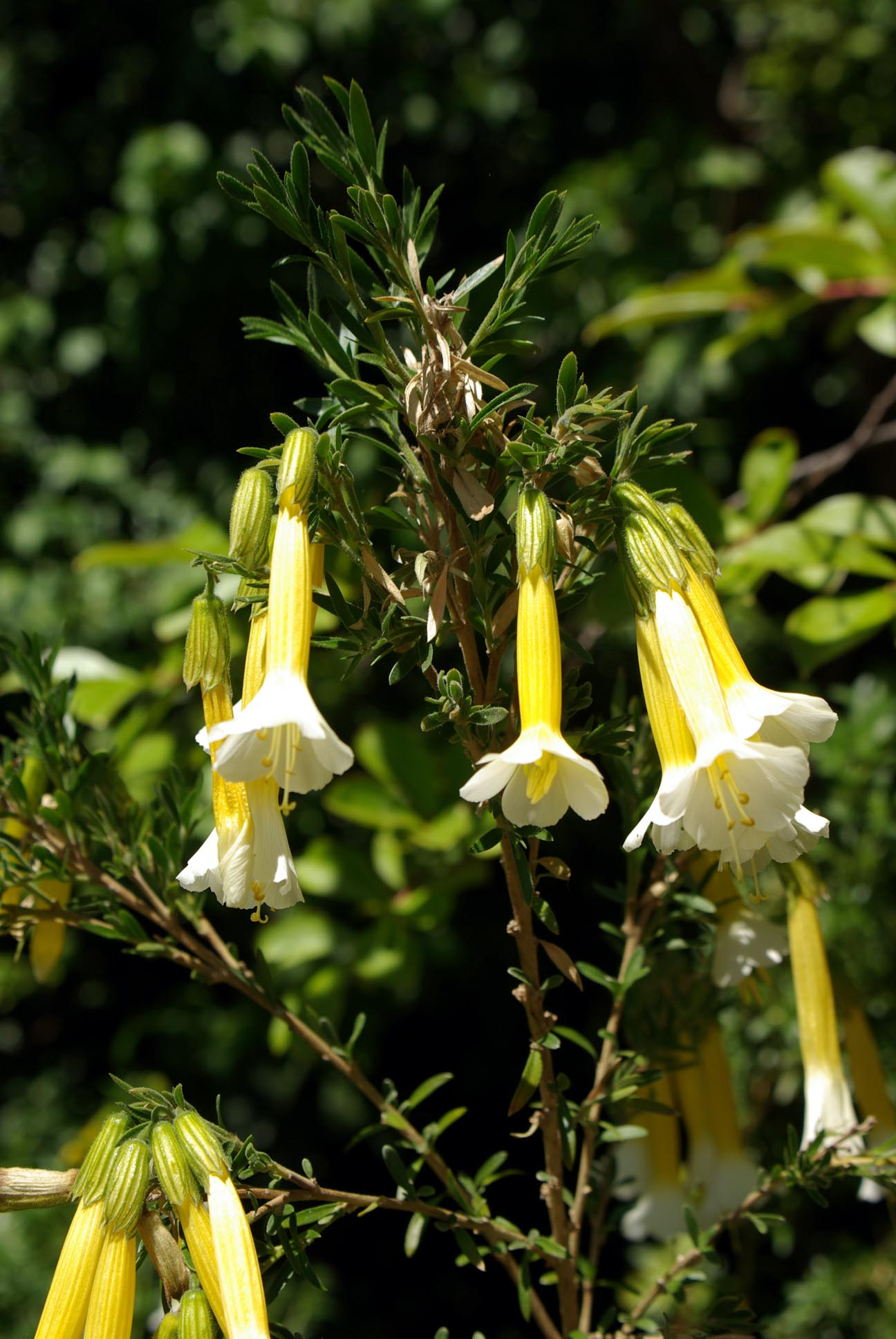 Catua pyrifolia flowering in Royal Hobart Botanical Gardens